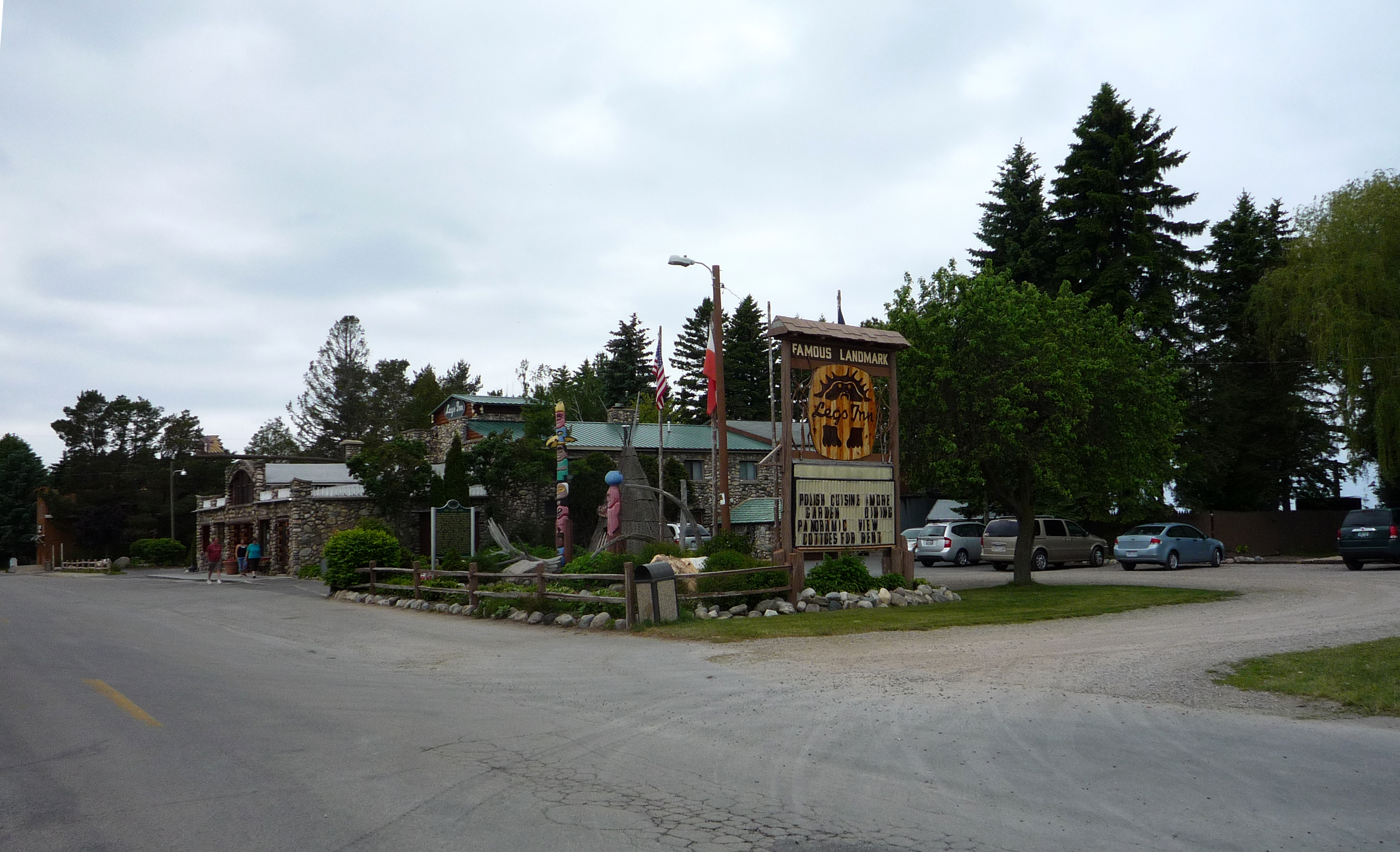 Legs Inn, a restaurant/hotel, Cross Village, Michigan, USA.